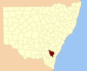 Location of Murray county in New South Wales, one of the original Nineteen Counties